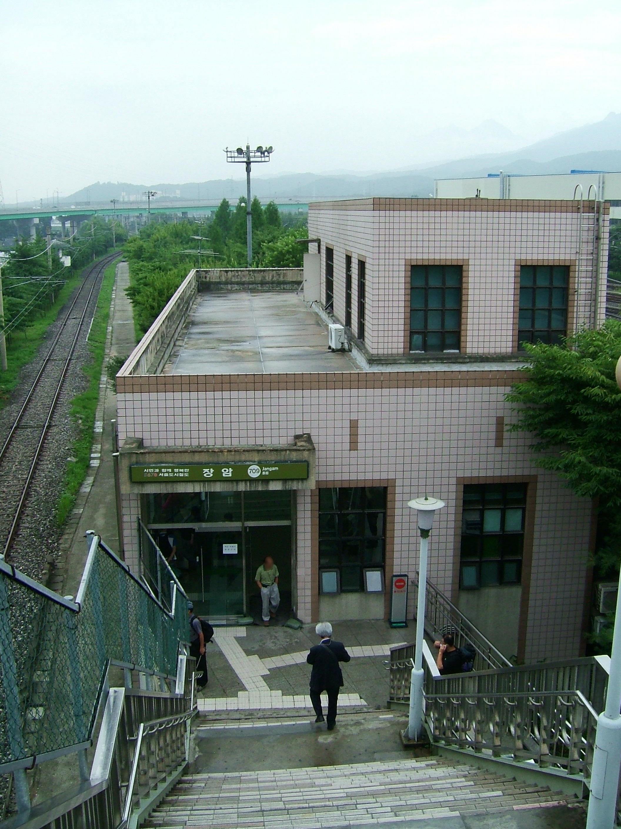 The building of Jangam Station on Seoul Subway Line 7 in Uijeongbu city, Gyeonggi-do, Republic of Korea(South Korea)